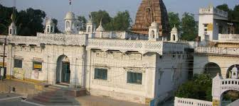 aharji